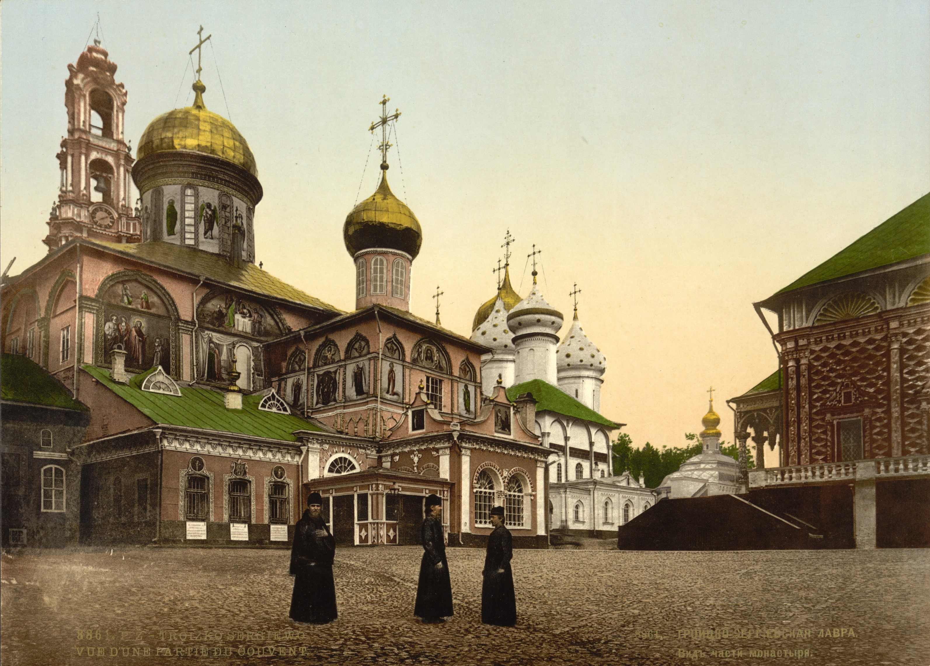 19th-century postcard of Trinity Cathedral (1422-23) in Troitse-Sergiyeva Lavra near Moscow.